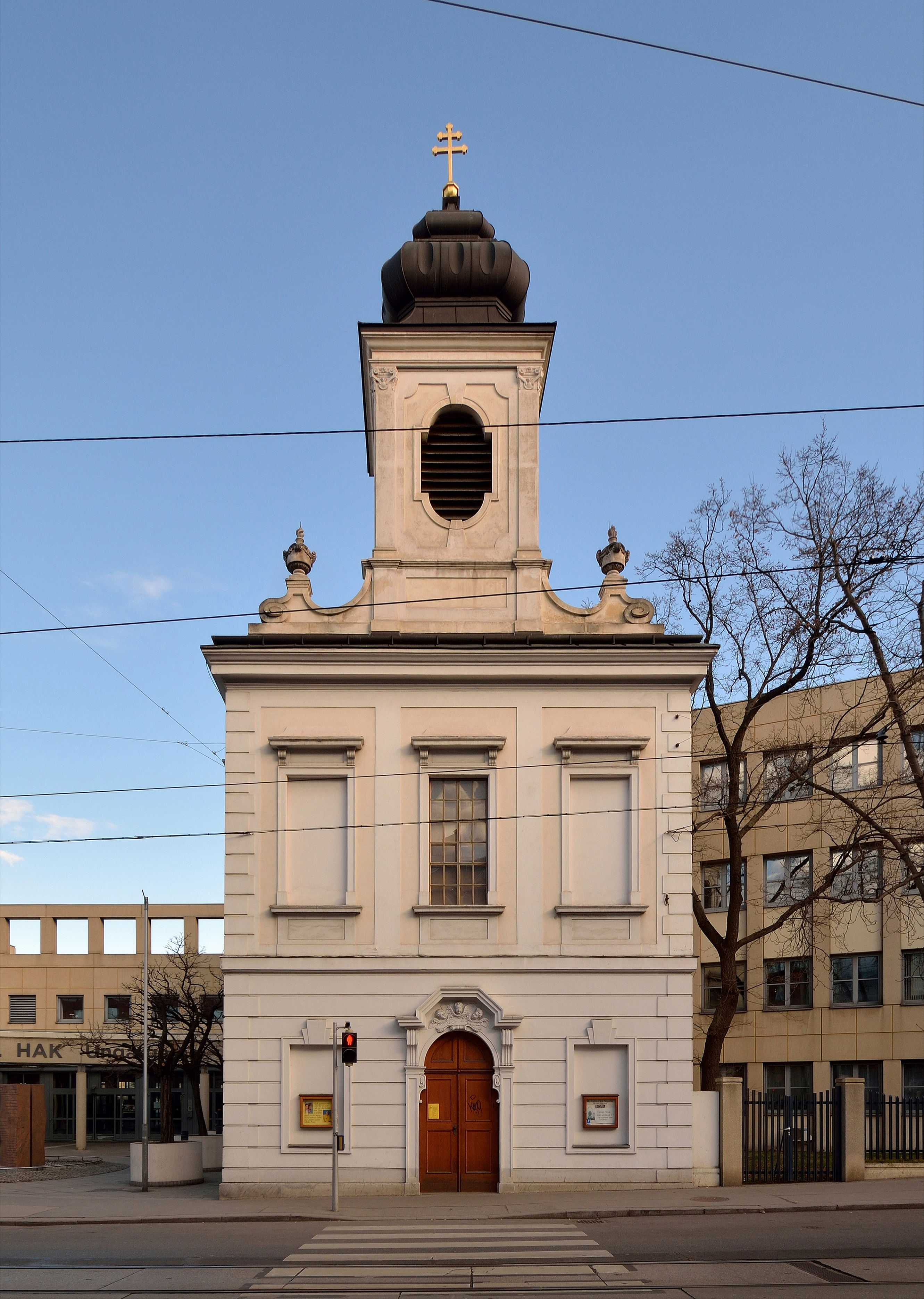 Januariuskapelle, Ungargasse, 3rd district of Vienna